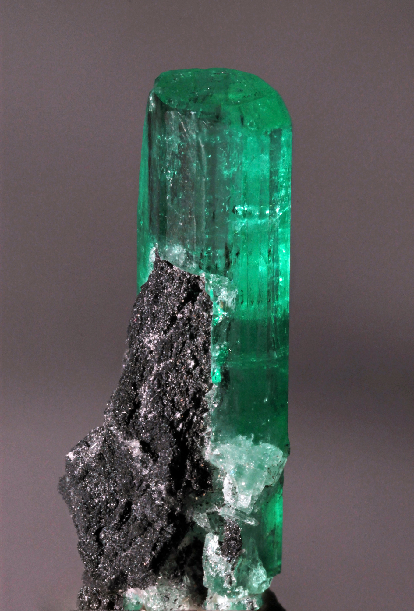 beryl var. emerald : Muzo Mine, Mun. de Muzo, Vasquez-Yacopí Mining District, Boyacá Department, Colombia